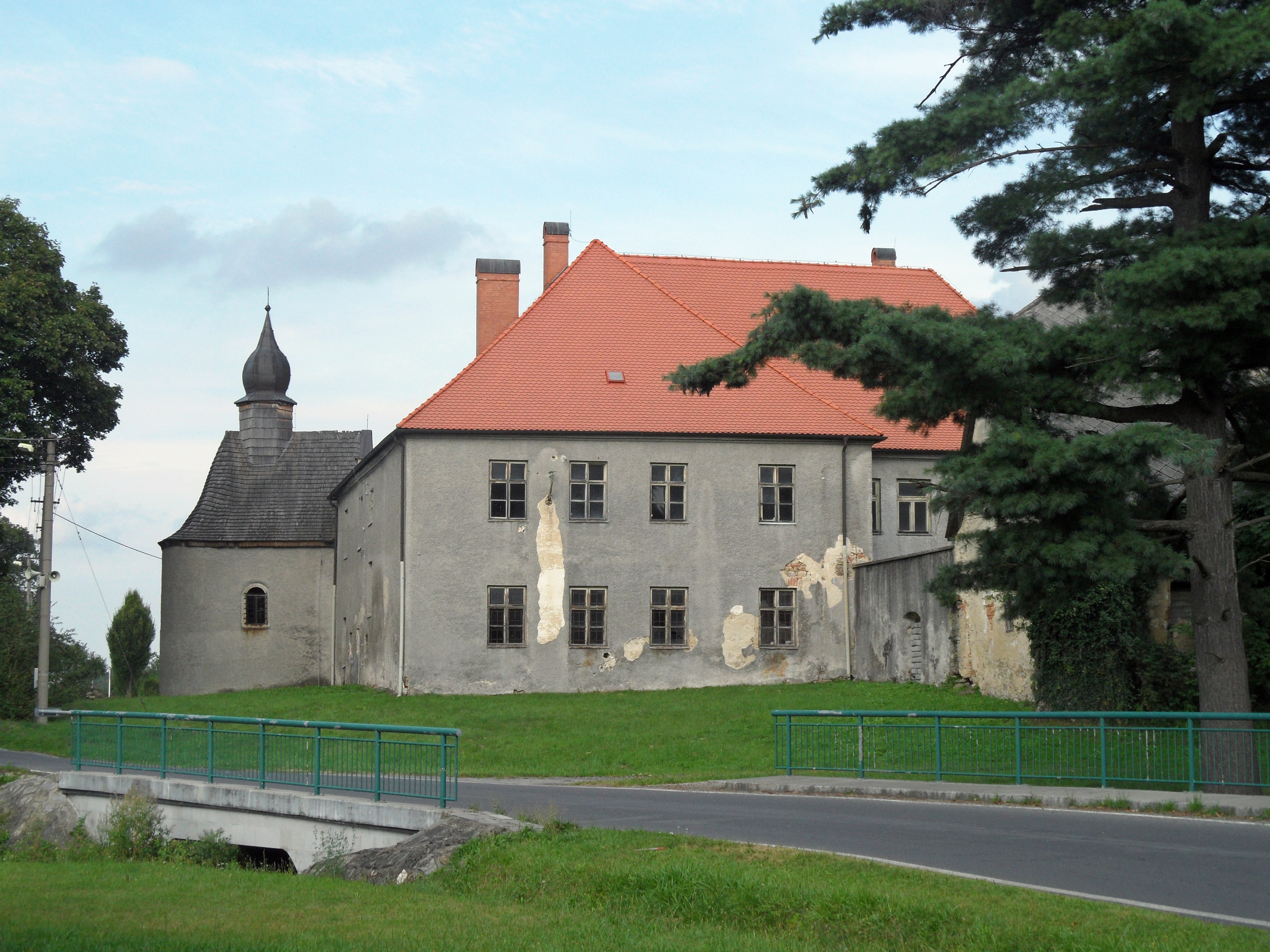 Černá Voda: Small Castle (No. 67): Overview from South-West. Jeseník District, the Czech Republic.